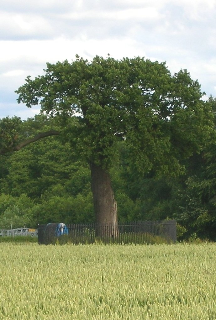 The Royal Oak at Boscobel House, Shropshire, England. A descendant of the oak in which Charles II hid when fleeing after the Battle of Worcester. Photographed by me 23 June 2007. Oosoom